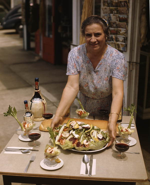 Local call number: JJS0107 Title: Maria Pappas serving the "perfect Greek luncheon": Tarpon Springs, Florida Date: June 27, 1947 Physical descrip: 1 transparency - col. - 5 x 4 in. Series Title: Repository: 500 S. Bronough St., Tallahassee, FL 32399-0250 USA. Contact: 850.245.6700. Persistent URL